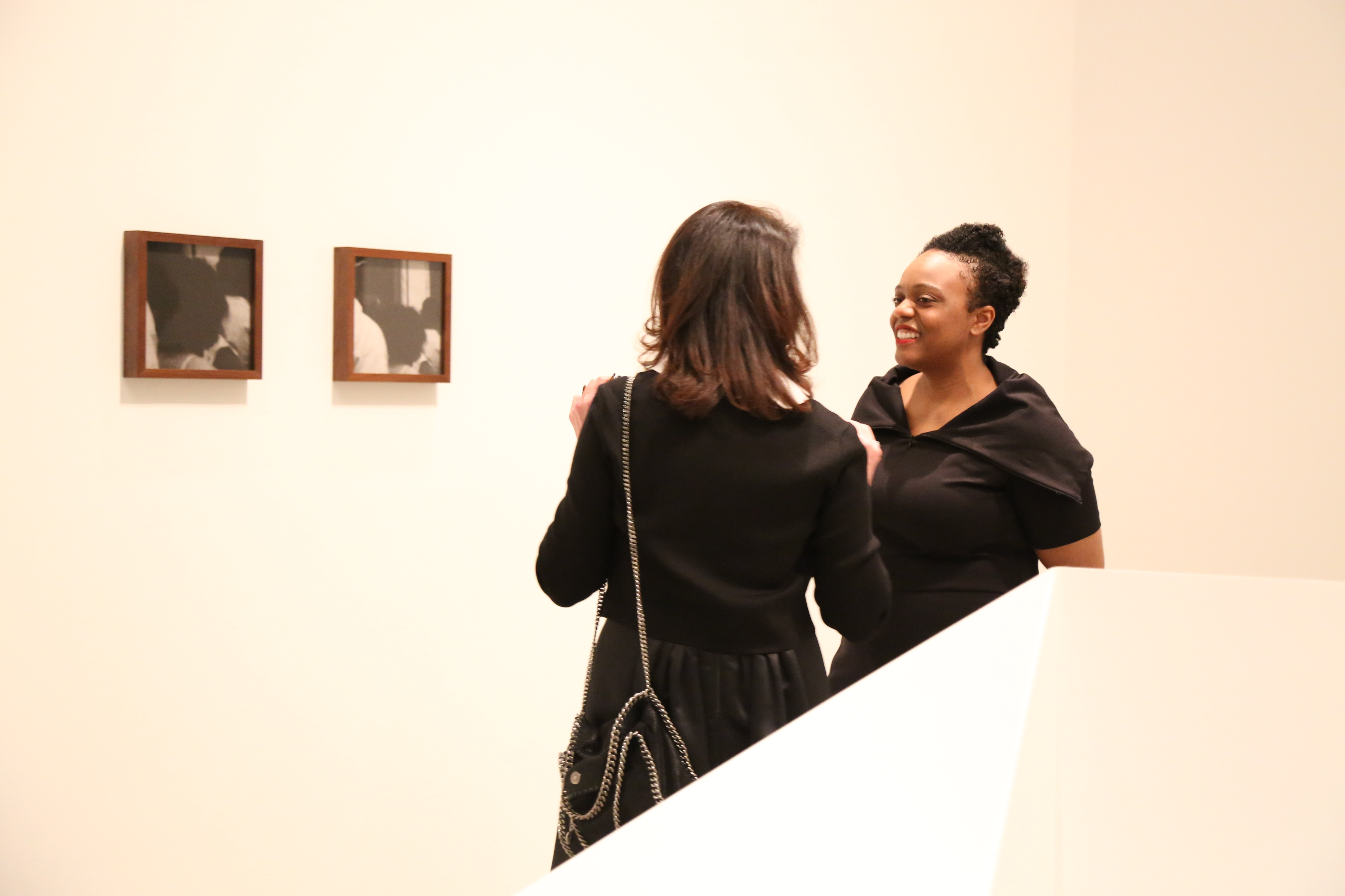 Collective Stance is an exhibition of work by New York-based artist Leslie Hewitt, featuring her collaboration with renowned cinematographer Bradford Young. The exhibition also includes new works and a selection of pieces from Hewitt's individual practice, informed by her collaboration with Young. The exhibition is supported by the US Consulate Toronto and the admission is free.